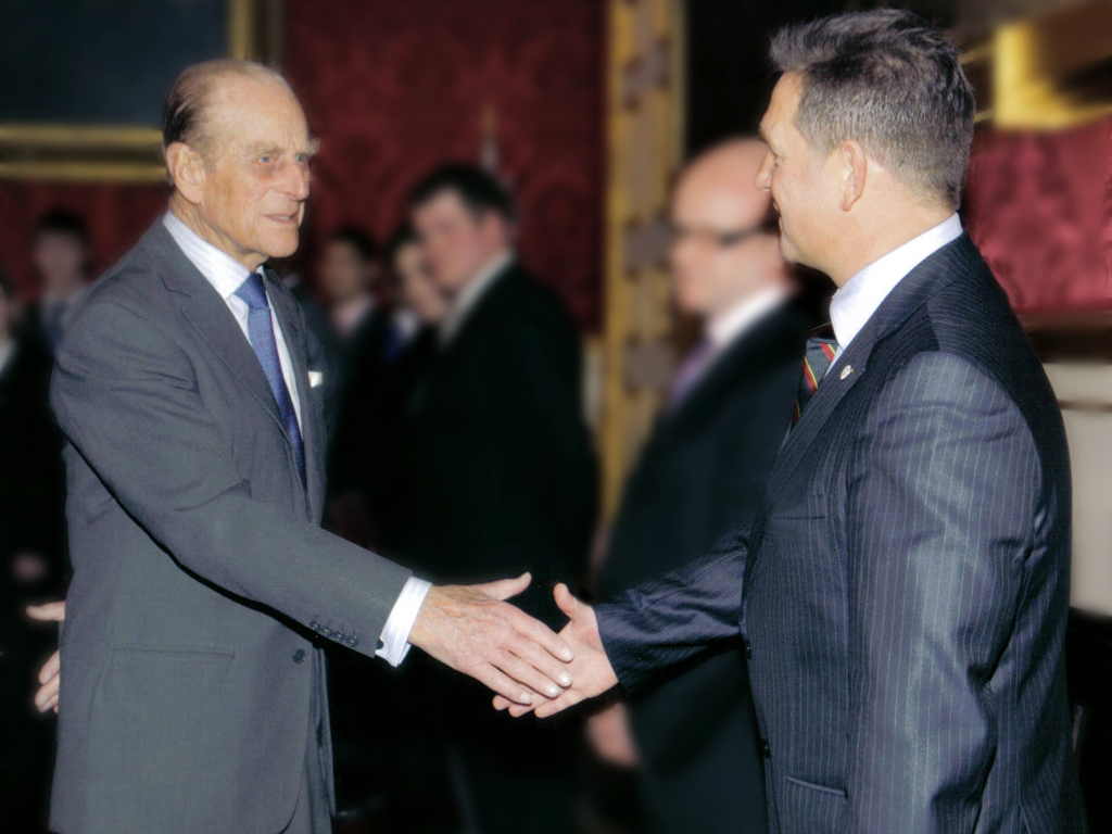 Trade Diplomat Colin Evans with HRH Prince Philip at the Palace of St James